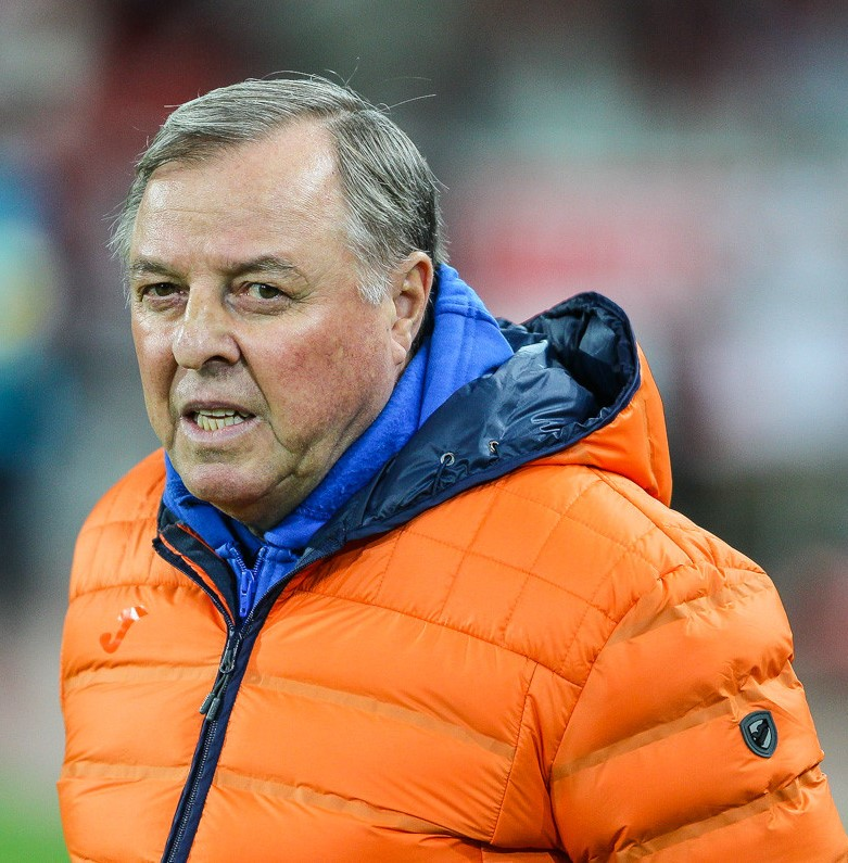 Aleksandr Tarkhanov